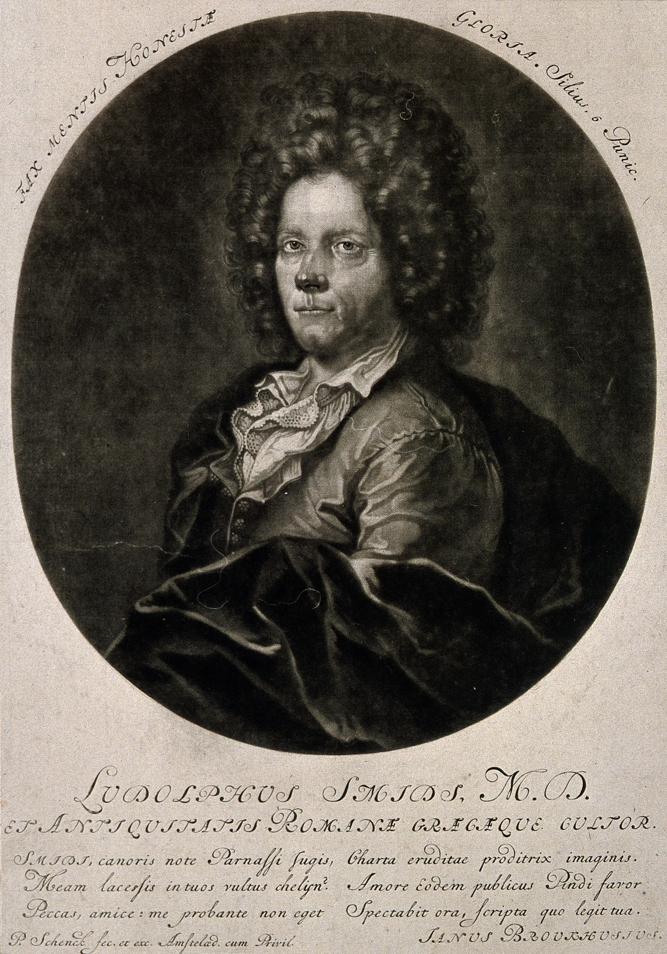 Ludolph Smids. Mezzotint by P. Schenck. Iconographic Collections Keywords: portrait prints; Ludolph Smids; mezzotints